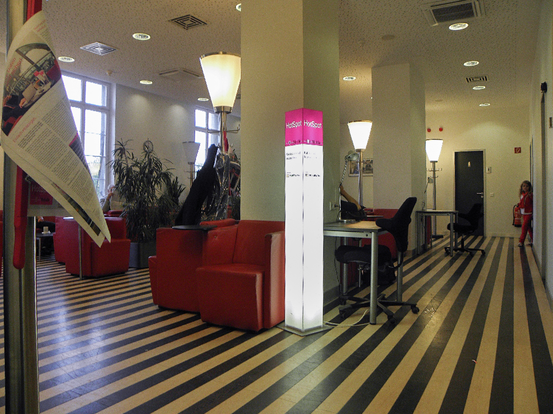 Pictures from Stuttgart